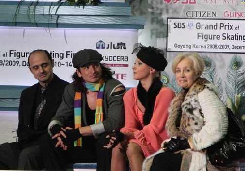 Gennadi Karponosov, Maxim SHABALIN, Oksana DOMNINA,Natalia Linnichuk. Grand Prix Final 2008